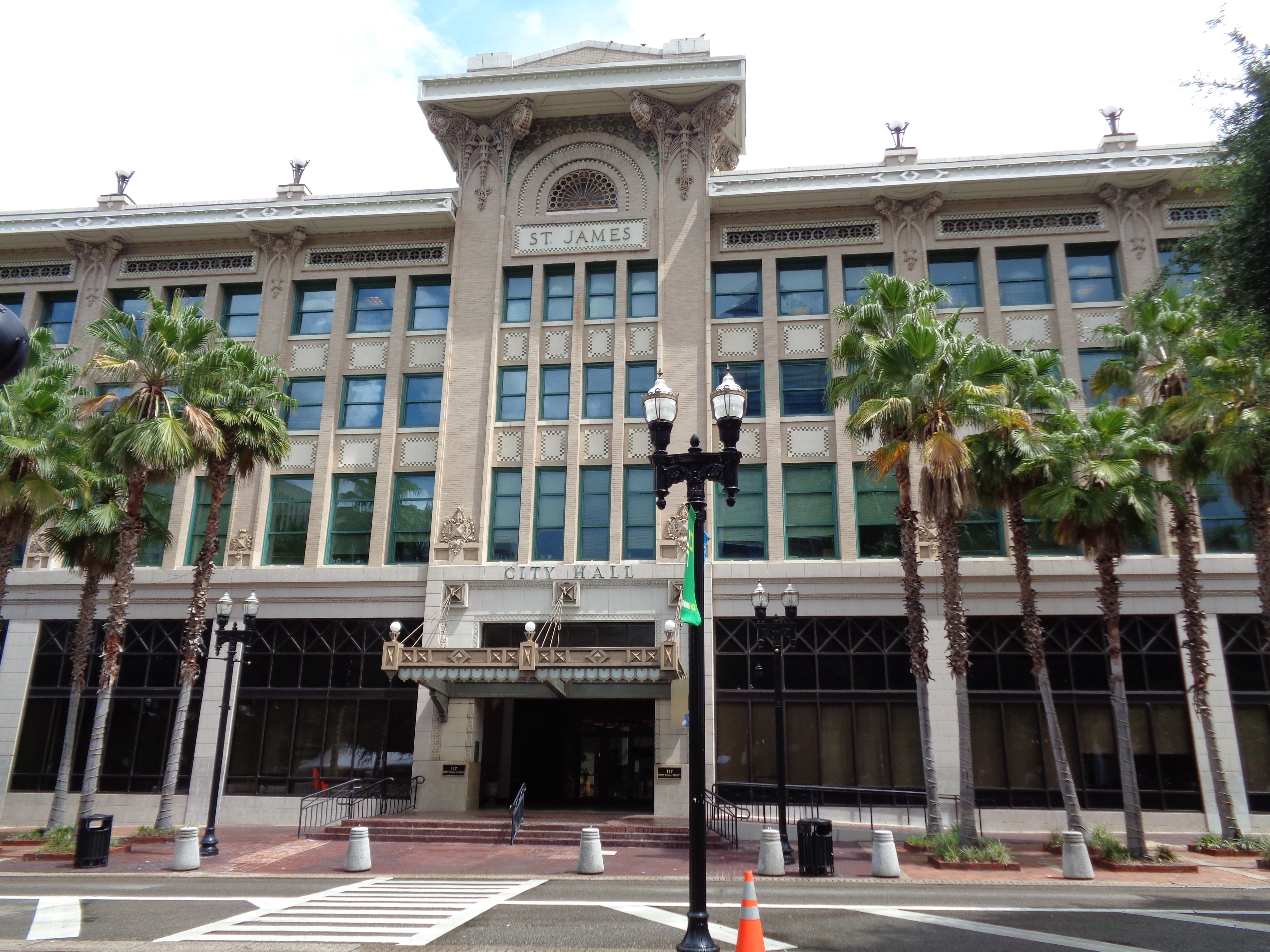 Jacksonville City Hall, Jacksonville, Duval County, Florida